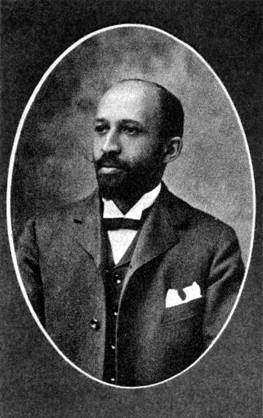 African American author, educator, and political activist W. E. B. Du Bois.